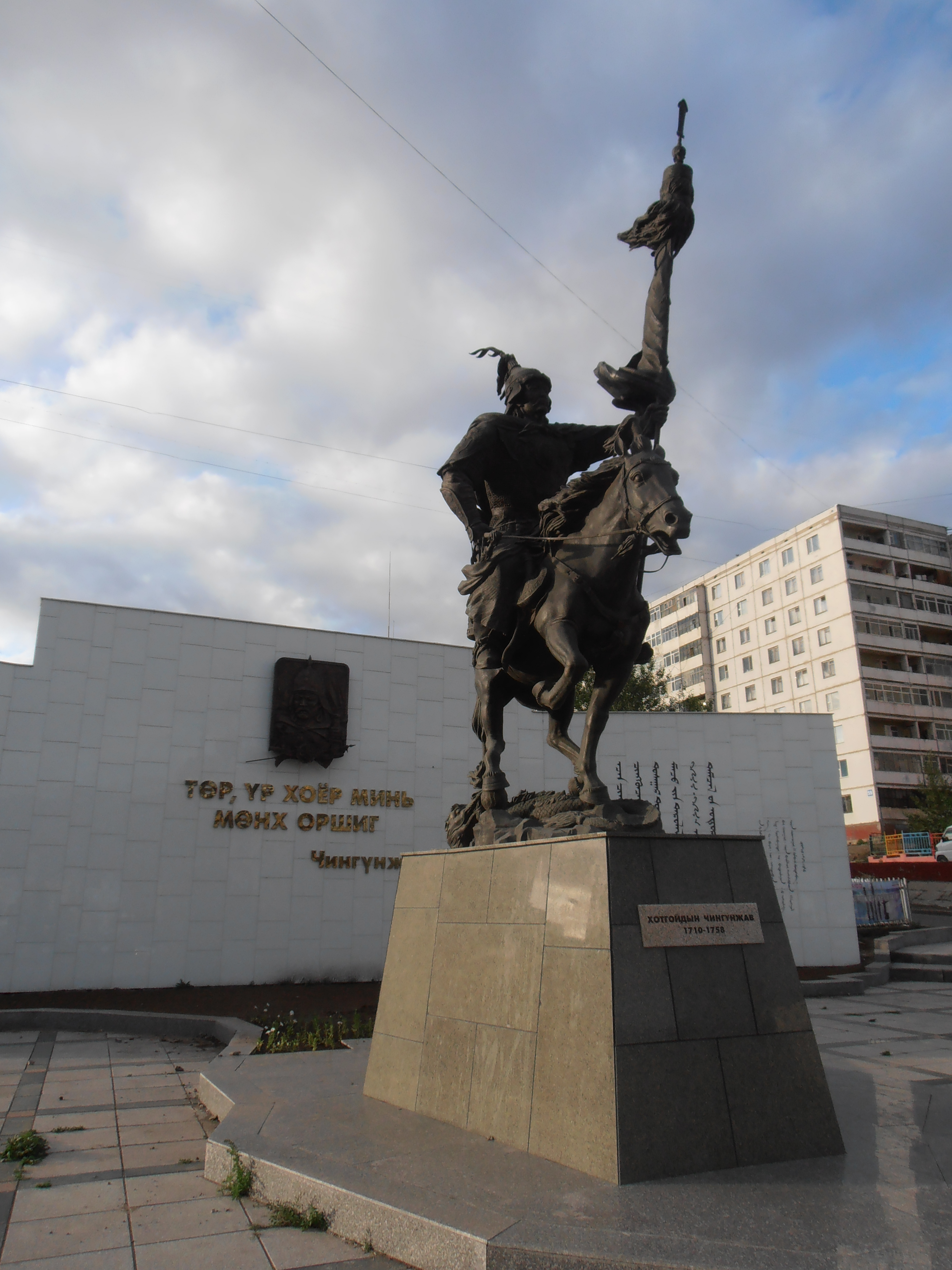 Hotgoid Chingunjav Statue (Ulan-Bator, Mongolia)Монгол: Хотгойд Чингунжавын хөшөө (Улаанбаатар, Монгол)